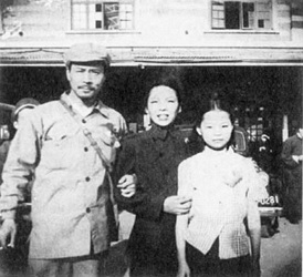 Painter Ye Qianyu, dancer Dai Ailian, and daughter Ye Mingming